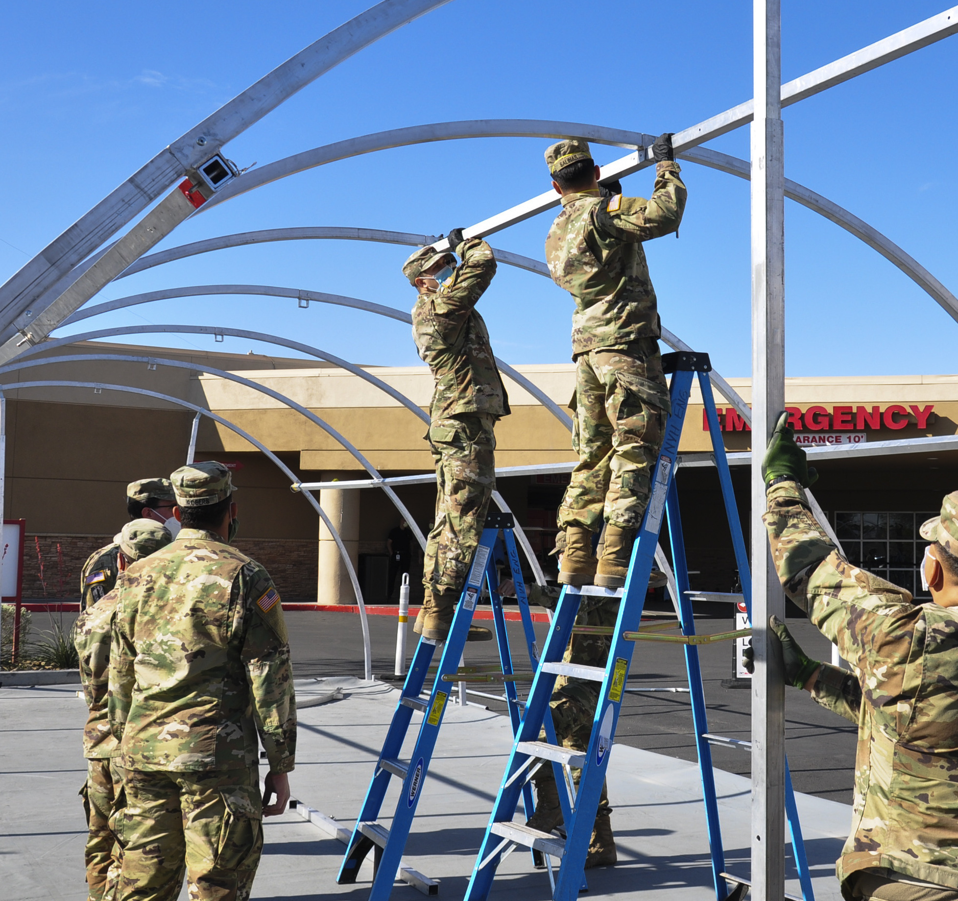 Soldiers with Nevada National Guard's 1-221 Cavalry work as a team to set up emergency tents at local hospitals in response to COVID-19, Friday, Apr. 17, 2020, Las Vegas, Nevada. (Photo by Staff Sgt. Ryan Getsie)